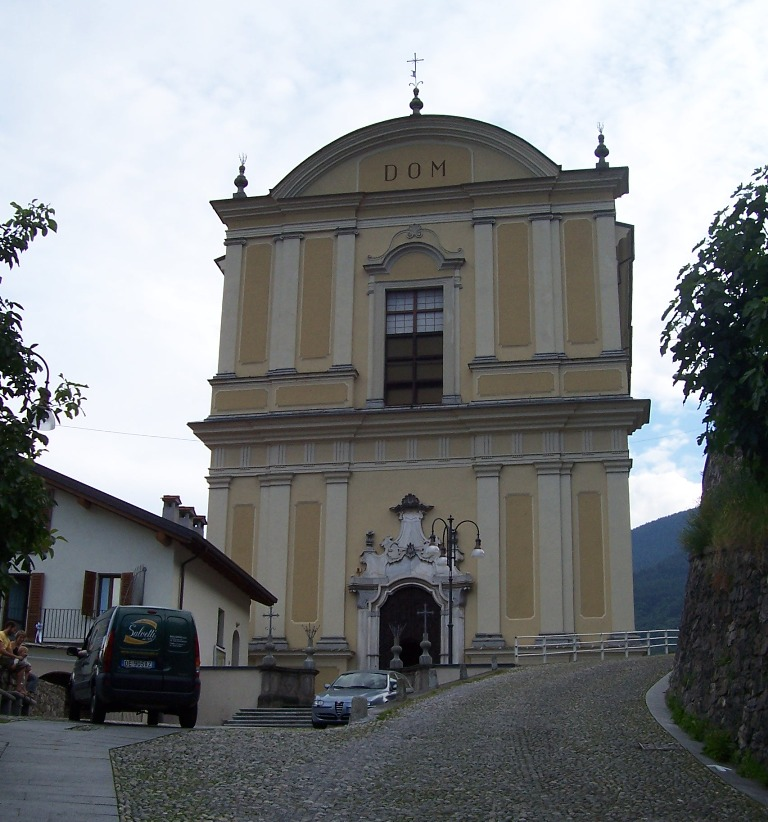 Church of st Faustino and Jovita. Malonno, Val Camonica